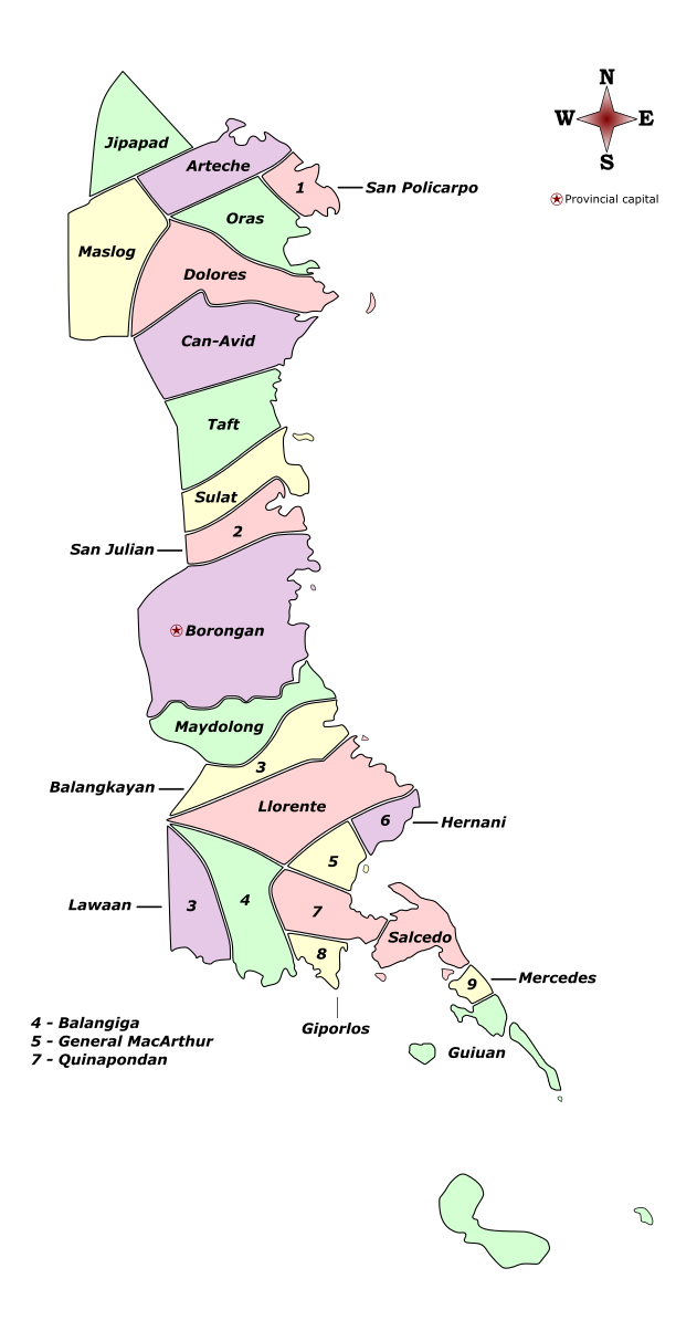 Labelled colored map of the province of Eastern Samar, showing its component city and municipalities.